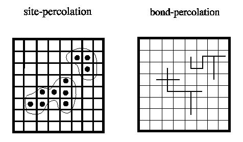 Illustration of mathematical percolation.